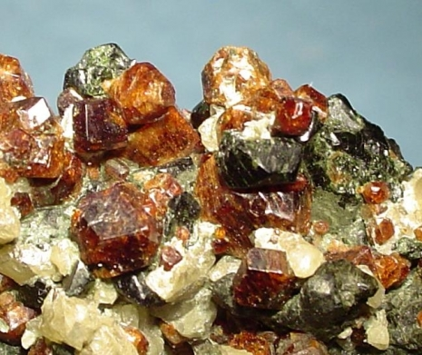 Andradite, Gahnite, Calcite, Pyroxene Locality: Franklin, Franklin Mining District, Sussex County, New Jersey, USA (Locality at ) Size: 9.4 x 6.6 x 4.2 cm. A fine, old-time, combination specimen from Franklin that comes with a cloth label glued to the back. One end of the sculptural matrix of moderate-lustre, greenish-black, euhedral pyroxene crystals hosts a two-sided pod of gemmy, reddish-brown andradite garnet dodecahedrons, a few sharp, lustrous, black gahnite octahedrons and tan calcite that fluoresces orange. Polyadelphite is a synonym of andradite garnet. It is a name formerly applied to andradite garnet from Franklin, NJ, and still in evidence on older labels. Ex. Dr. John Ward Collection.